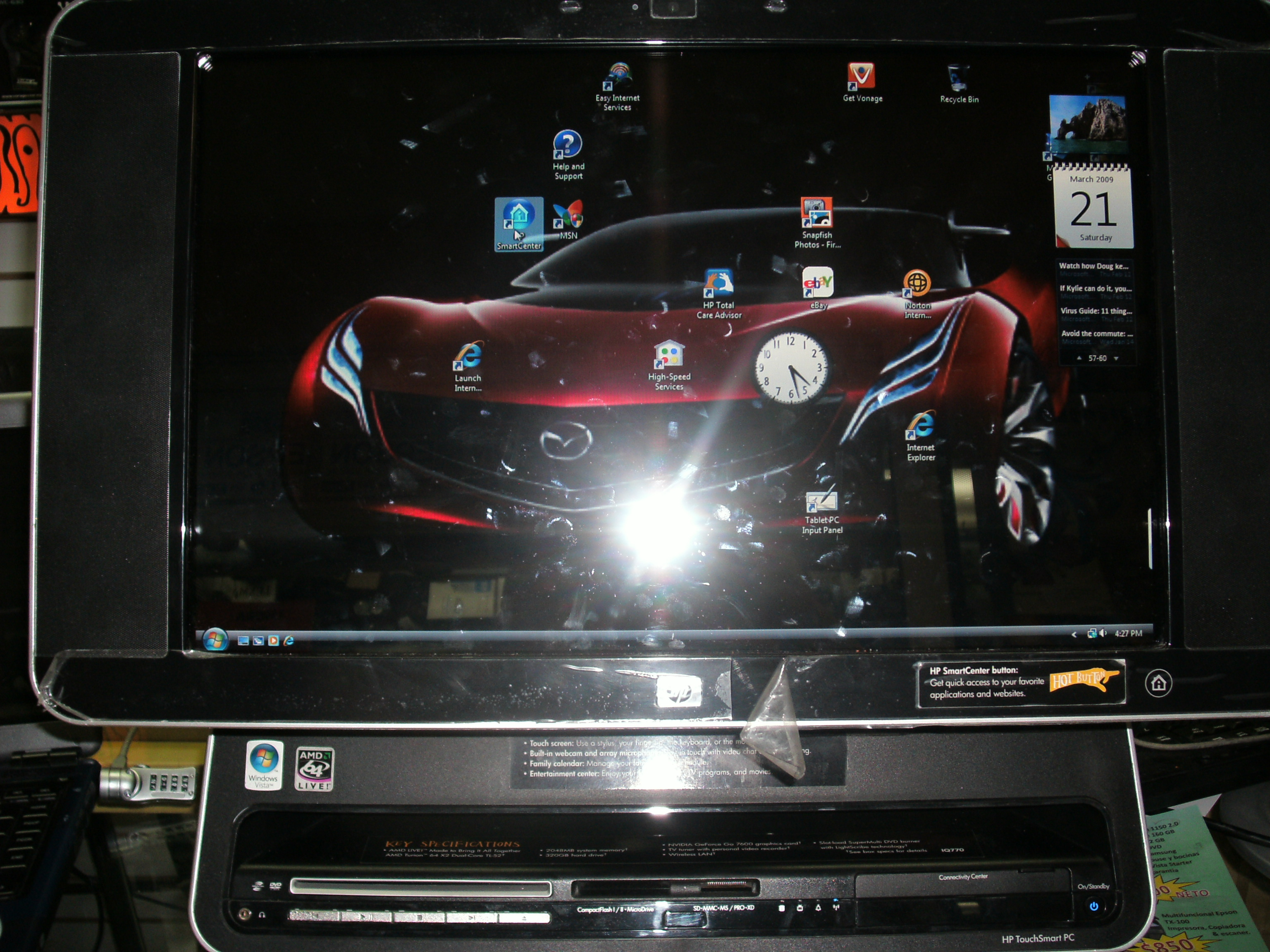 pc pantalla touch